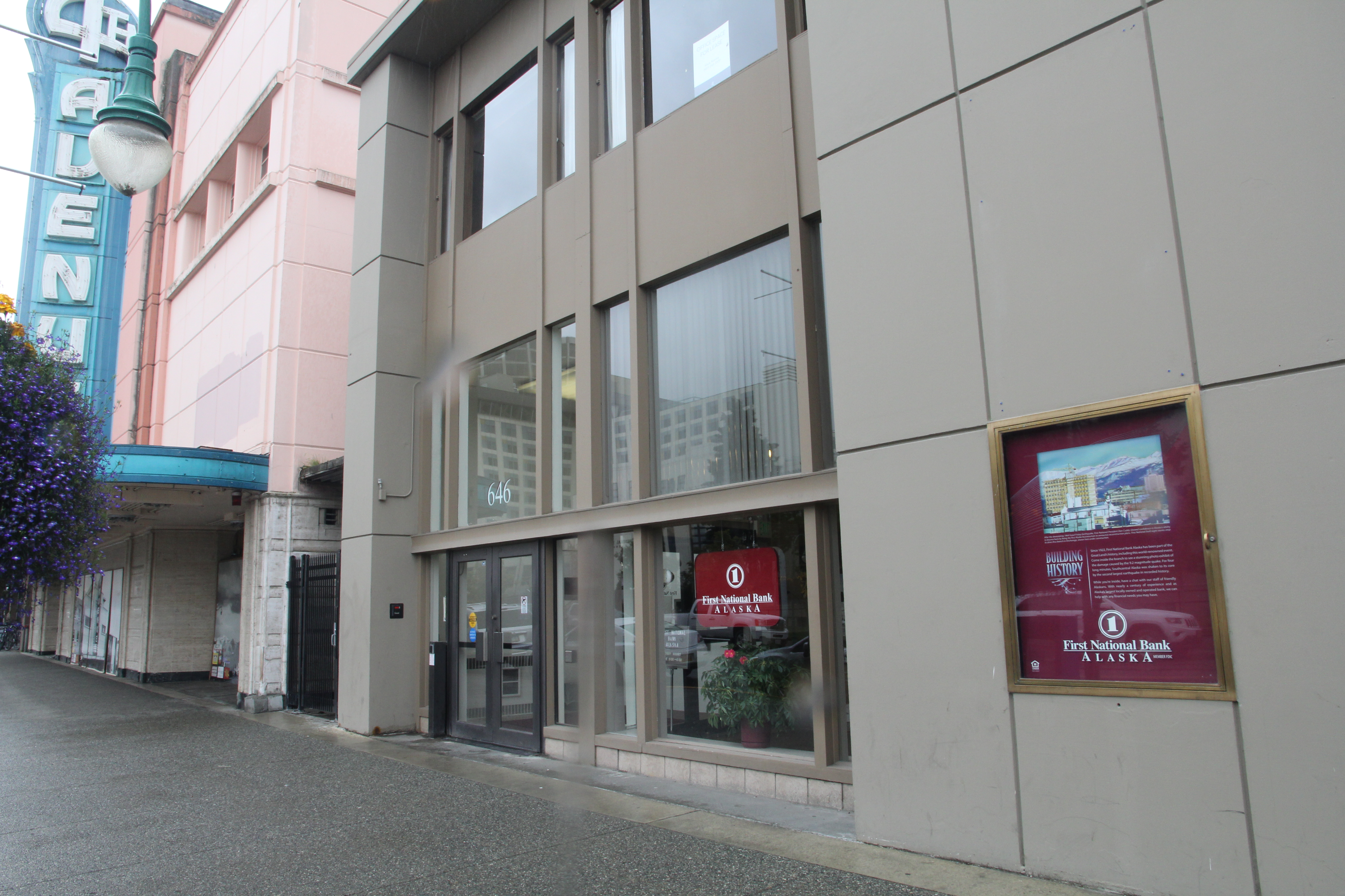 First National Bank Alaska's first and extant location on Fourth and G in Anchorage, Alaska, in 2016.